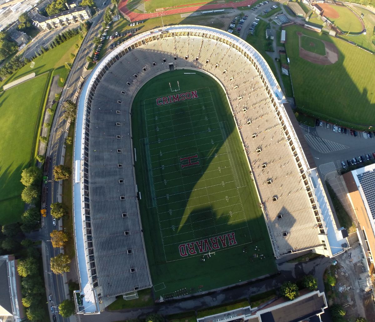 Aerial photo of Harvard Stadium